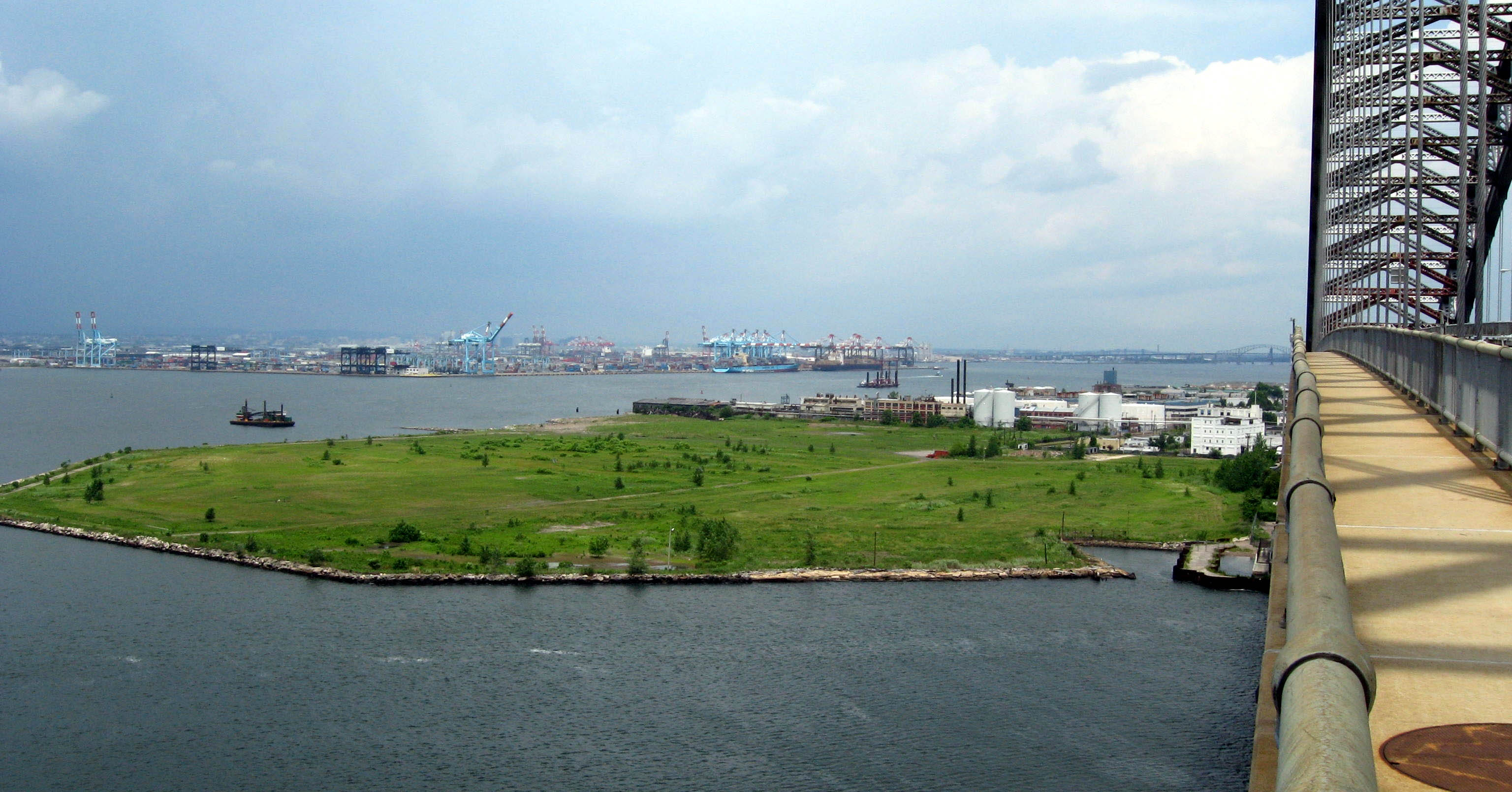 Looking north from footpath of Bayonne Bridge at the western point separating Kill Van Kull from Newark Bay on a cloudy early afternoon.